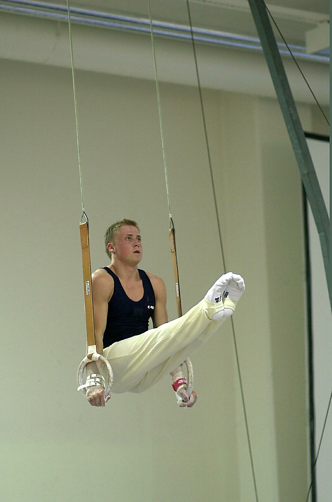 Norwegian gymnast Arve Jørgensen in rings at the Norwegian championships in 2001.